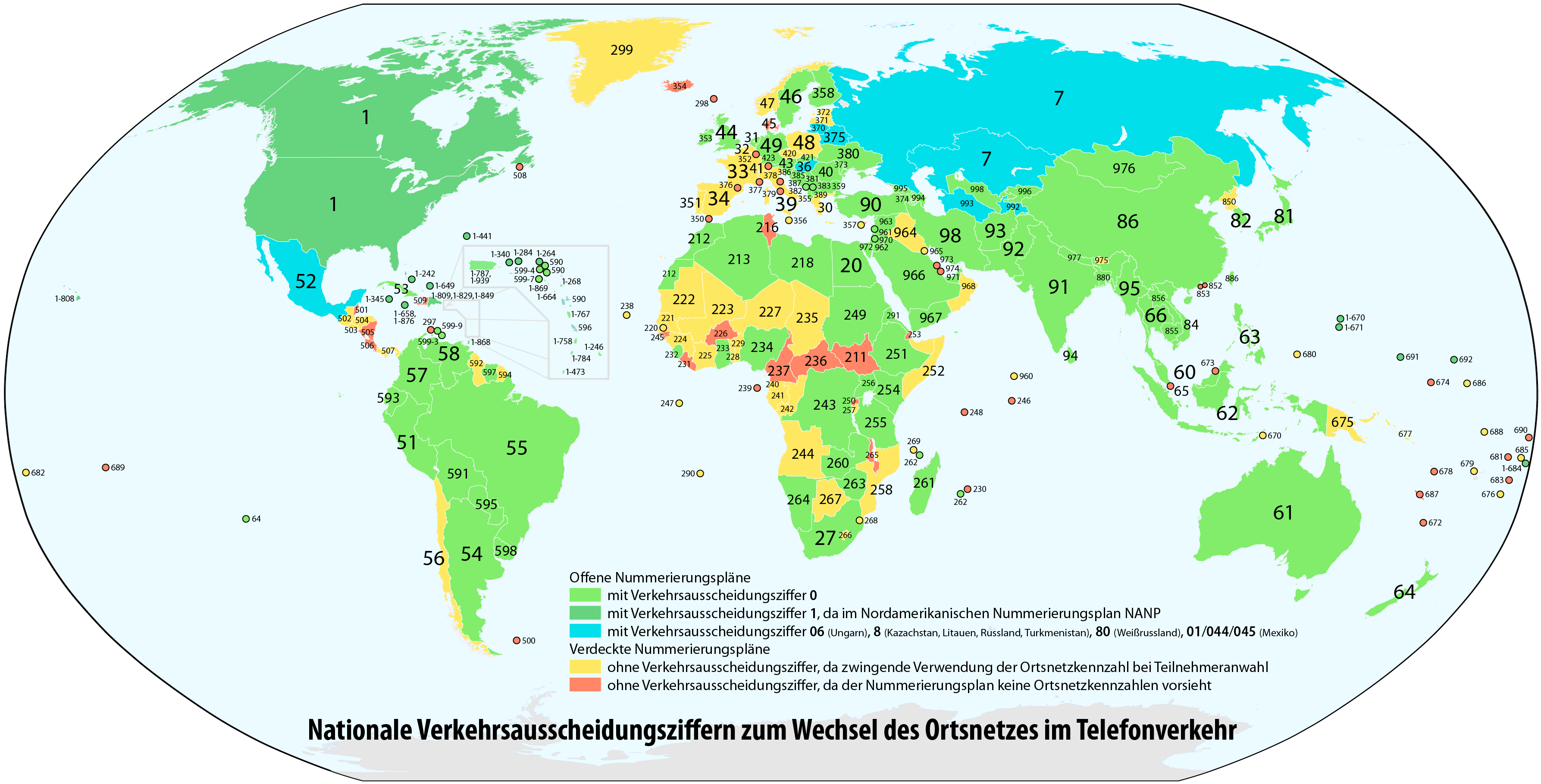 World map of the national trunk codes for changing the local area network to get another dialing code in telephone traffic